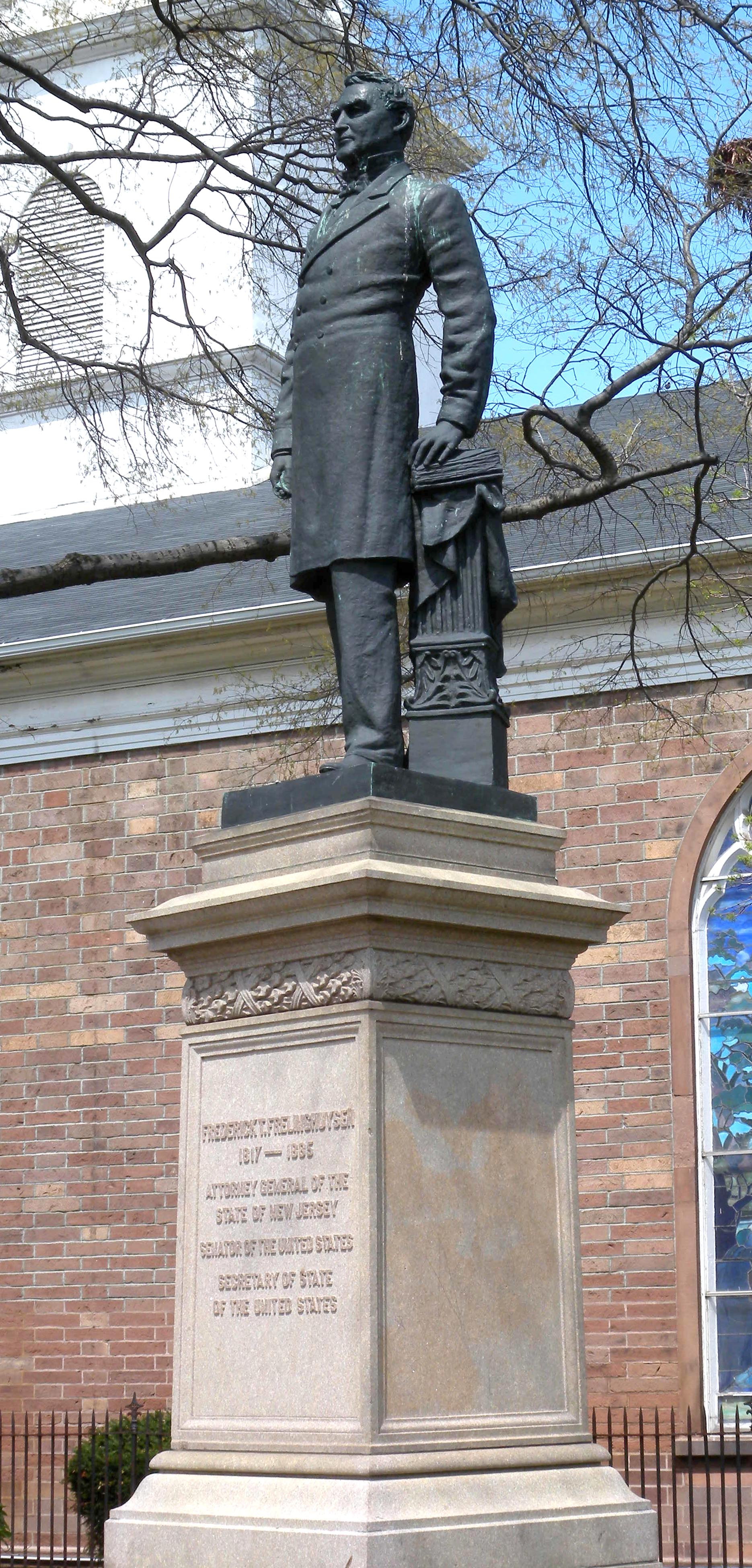 Looking north at statue in north part of Military Park with Episcopal Church in background. See File:Frederick T. Frelinghuysen - Brady-Handy.jpg.